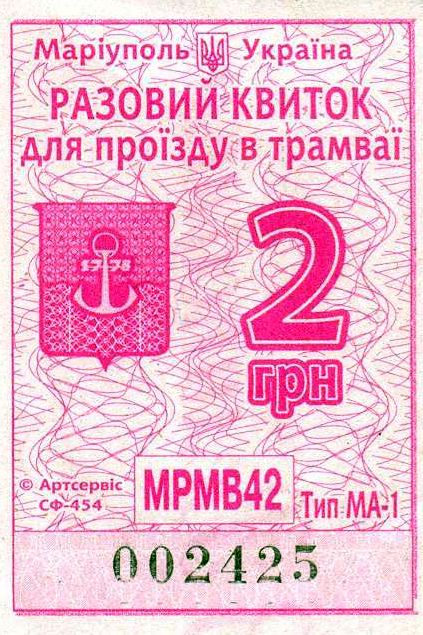 Ticket for the tram of the city of Mariupol (2016)